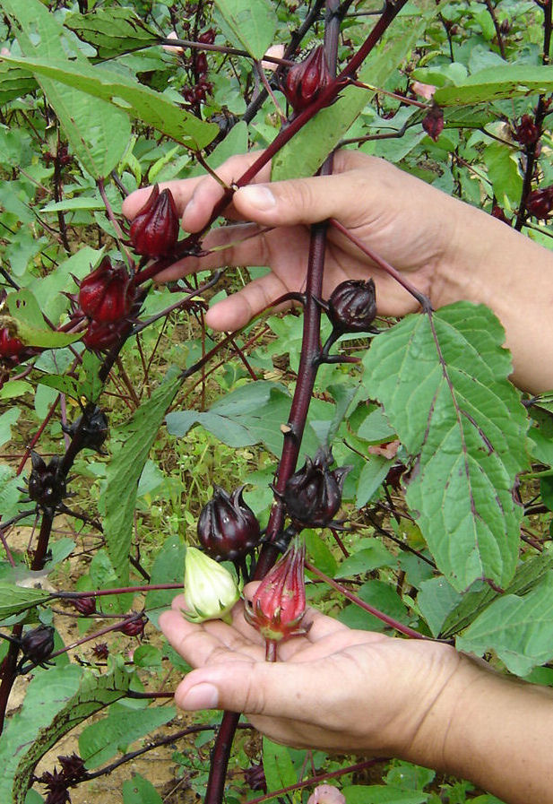 Some interesting breeding lines of roselle (Author: Dr. Mohamad bin Osman, Universiti Kebangsaan Malaysia (UKM), )